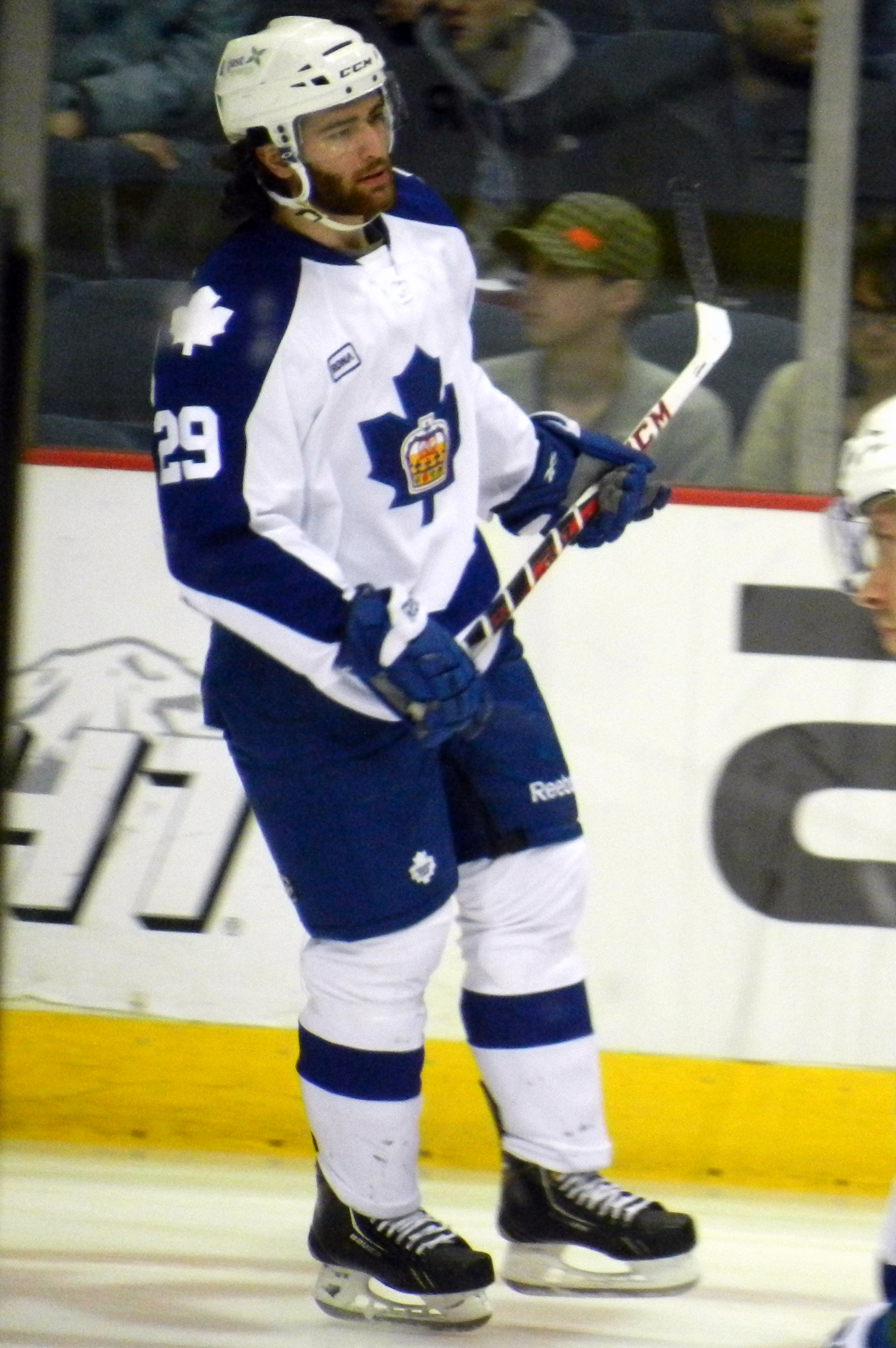 Jerry D'Amigo playing for the American Hockey League's Toronto Marlies